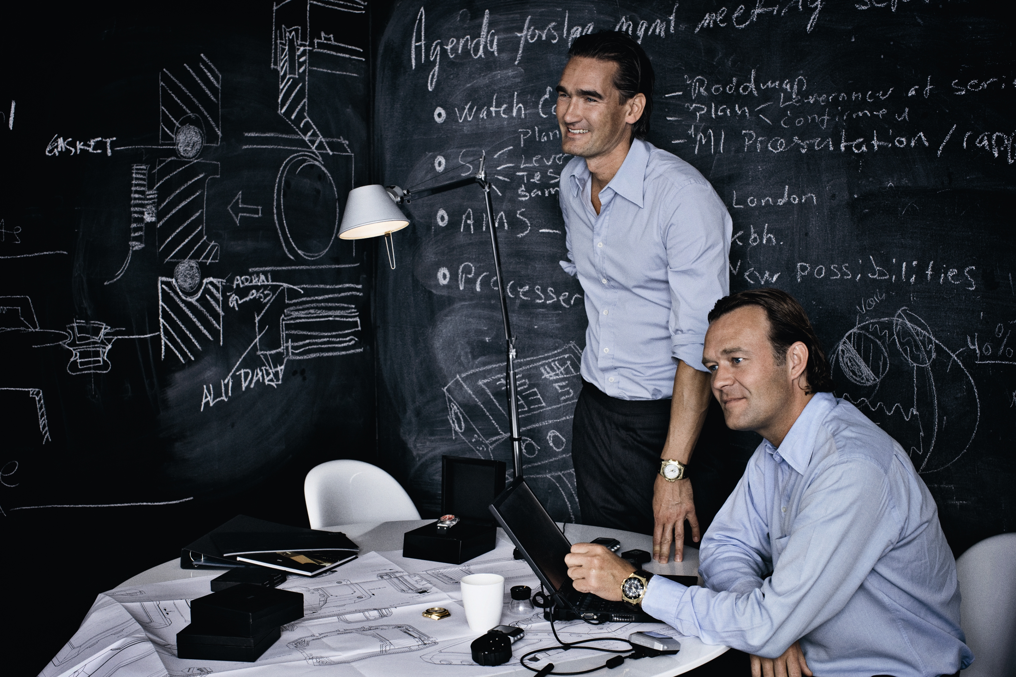 Morten Linde and Jorn Werdelin founders of Linde Werdelin watches and instruments.